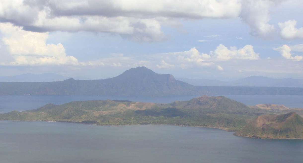 Mount Macolod from Tagaytay City with Taal Volcano Island in the foreground.